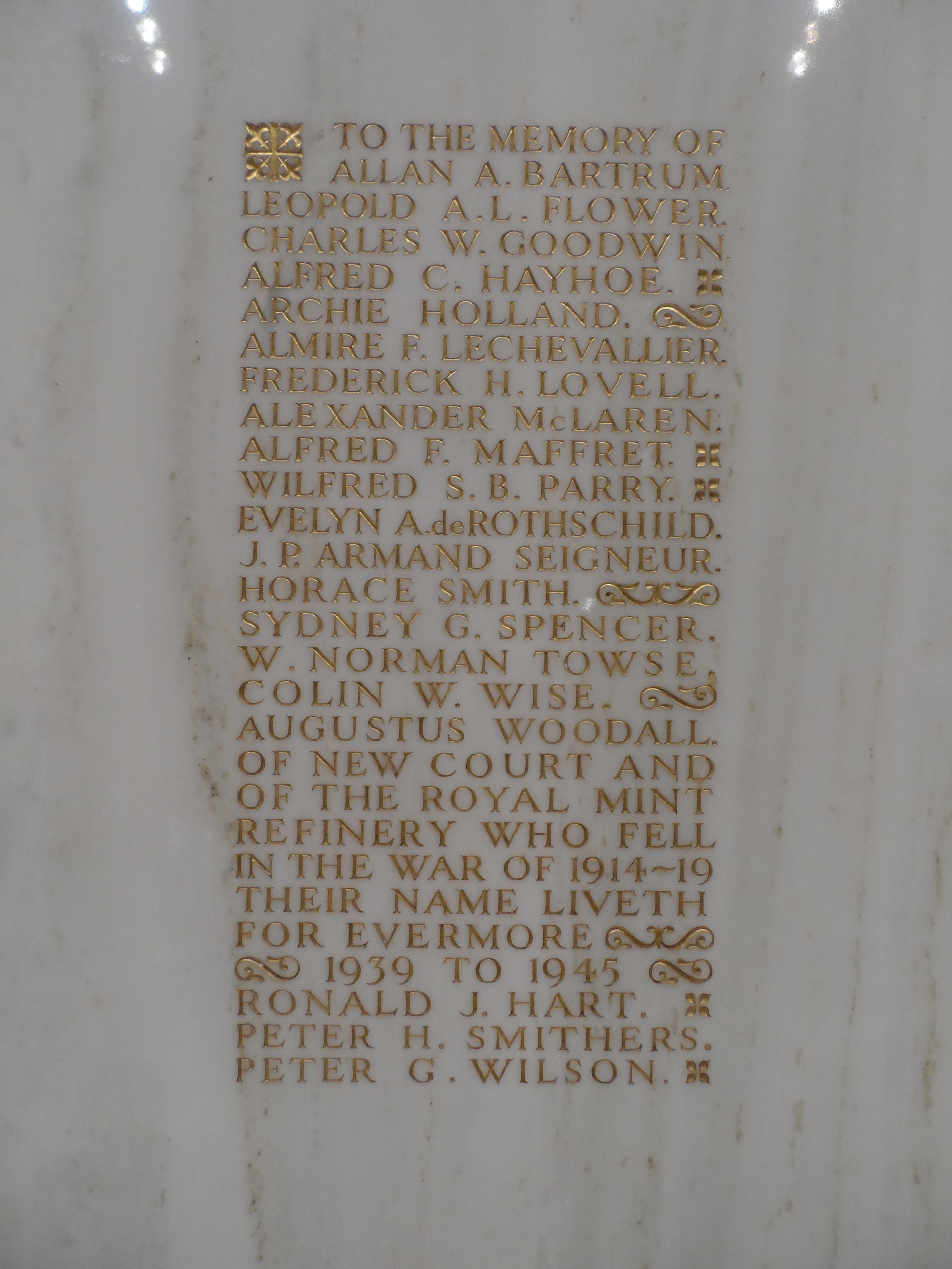 War memorial displayed at the Rothschild New Court building in London, UK.